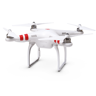 Phantom 2 quadcopter